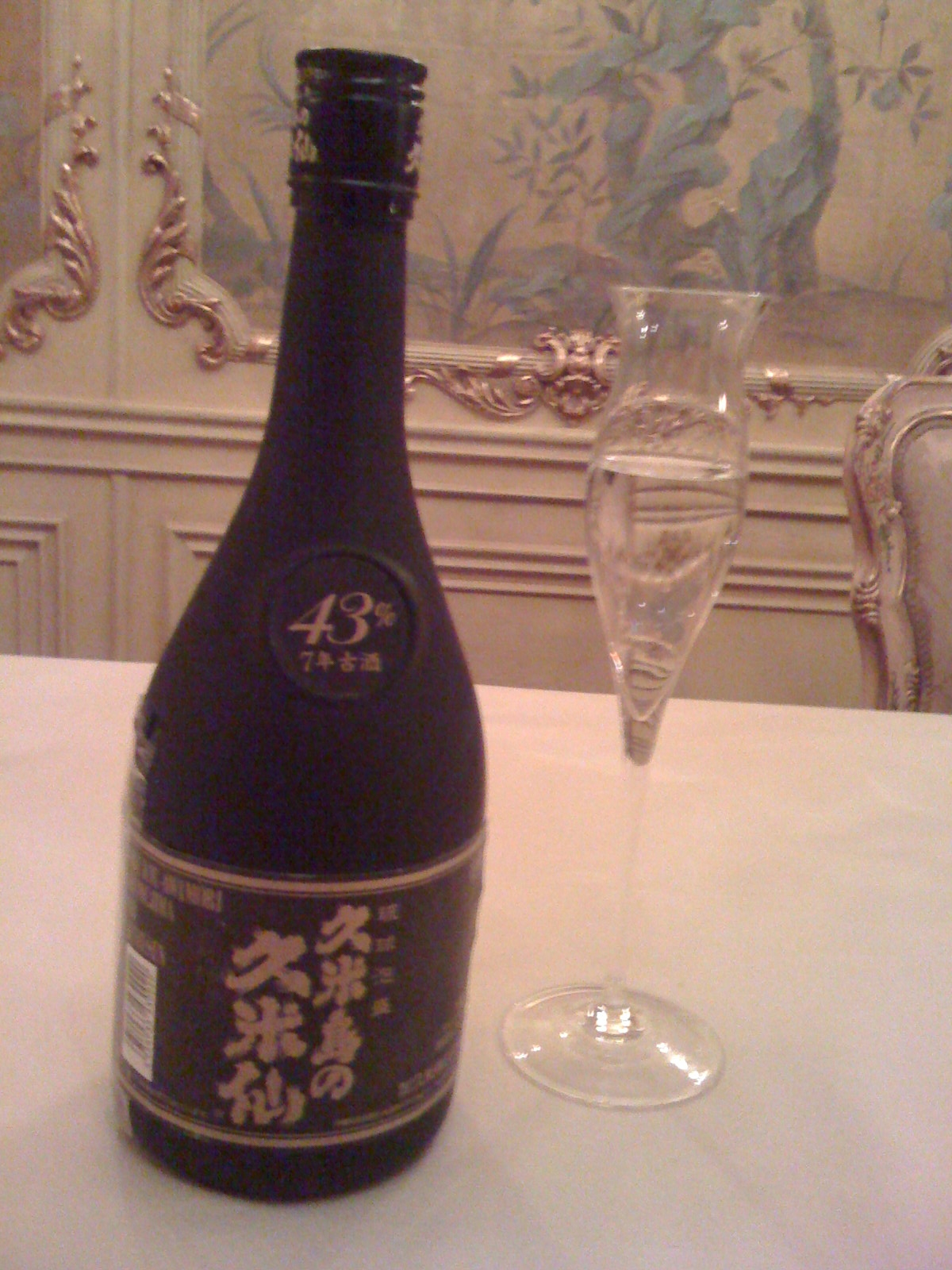 Awamori liquor served in a restaurant in Moscow, Russia